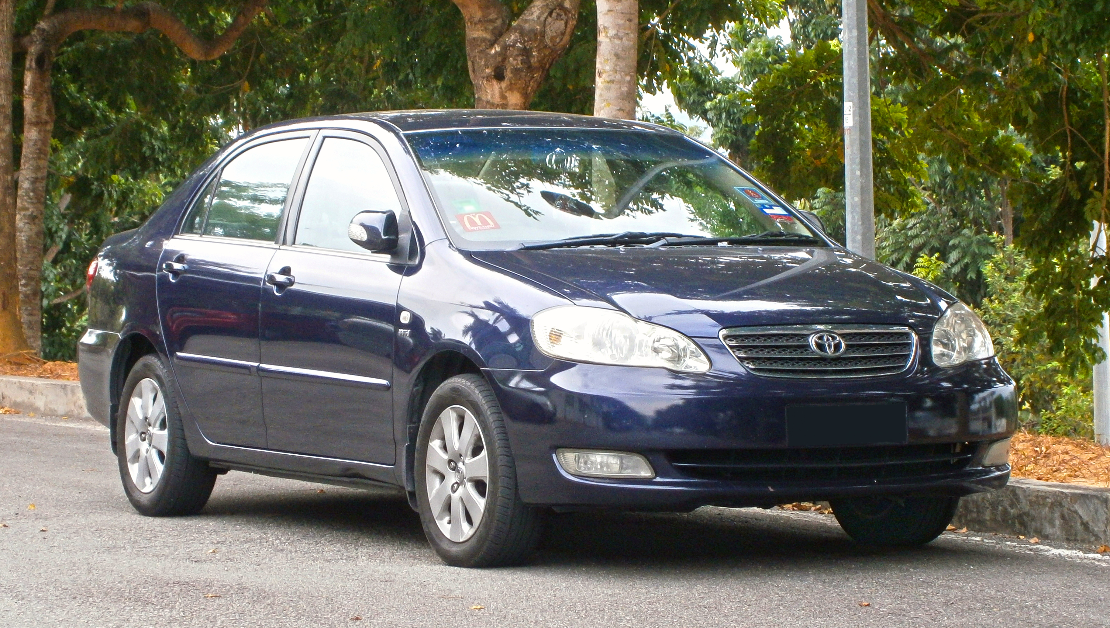 2005 Toyota Corolla Altis 1.6E in Cyberjaya, Malaysia.